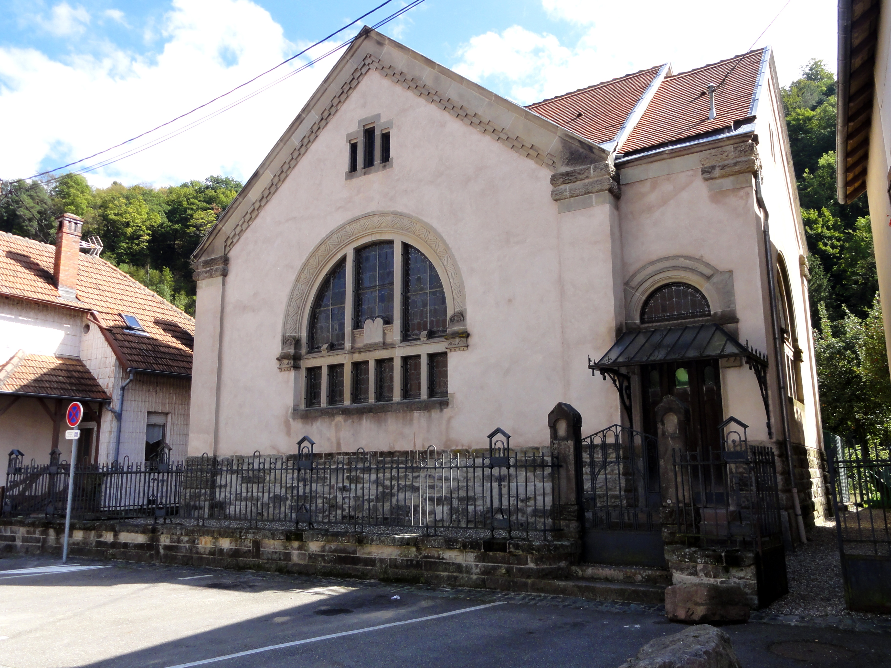 Alsace, Bas-Rhin, Schirmeck, Synagogue (1906), rue des Ecoles. It is indexed in the Base Mérimée, a database of architectural heritage maintained by the French Ministry of Culture, under the references PA67000033 and IA67013058.